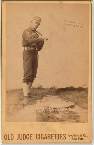 Major League Baseball player Scott Stratton